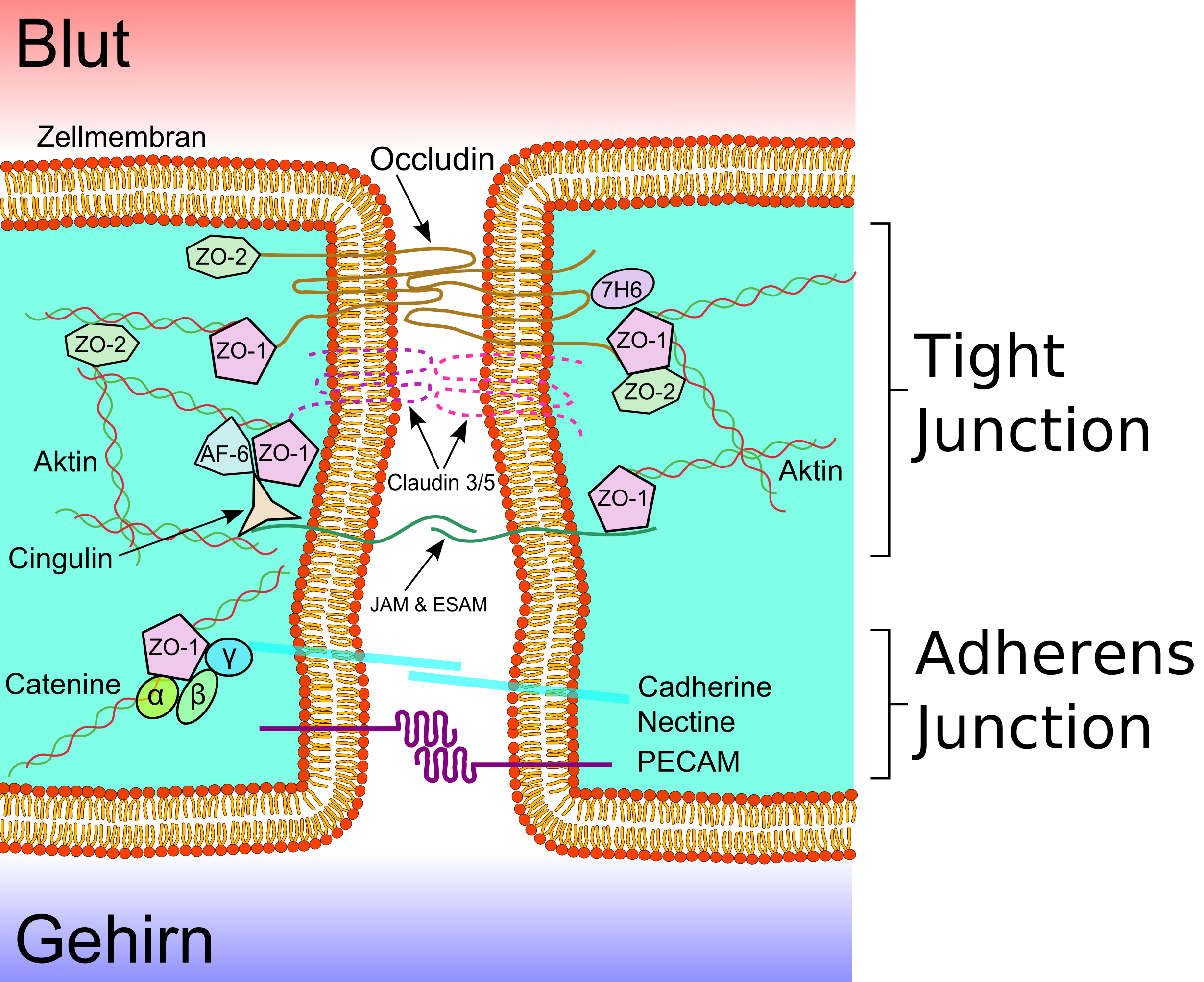 Schematic sketch showing the tight junctions and adherens junctions at the blood-brain barrier.